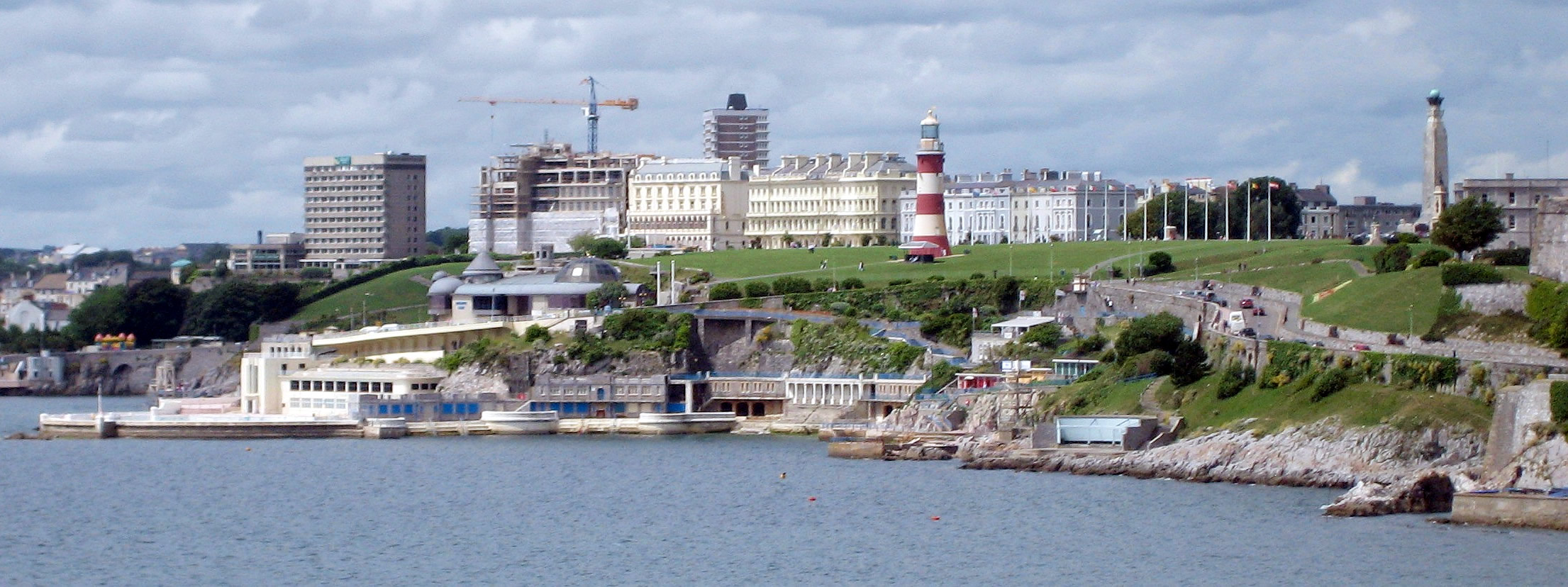 Plymouth Hoe from Mount Batten. A cropped and enhanced version of file from